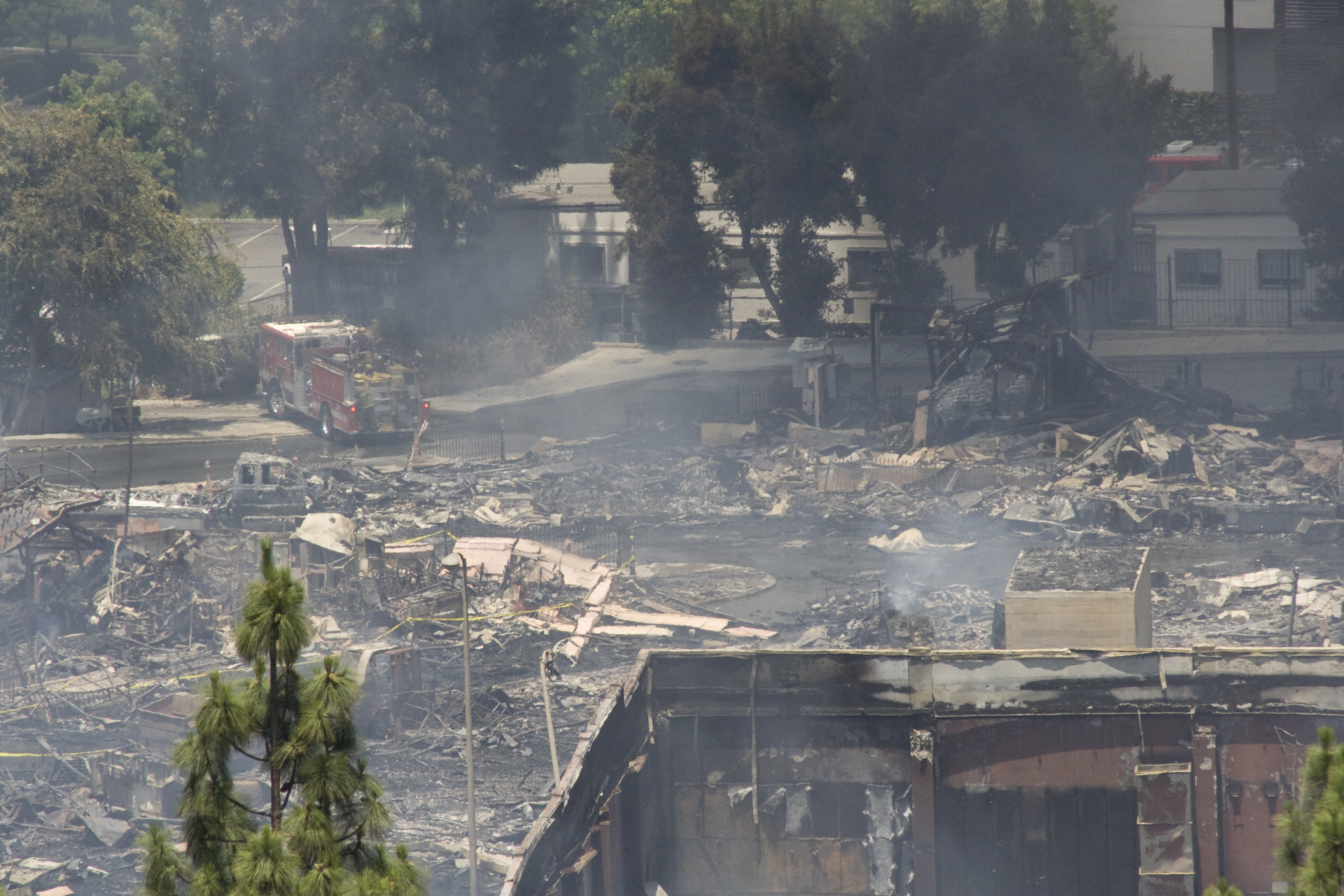 Burnt sets after the Universal Studio Fire, June 1, 2008